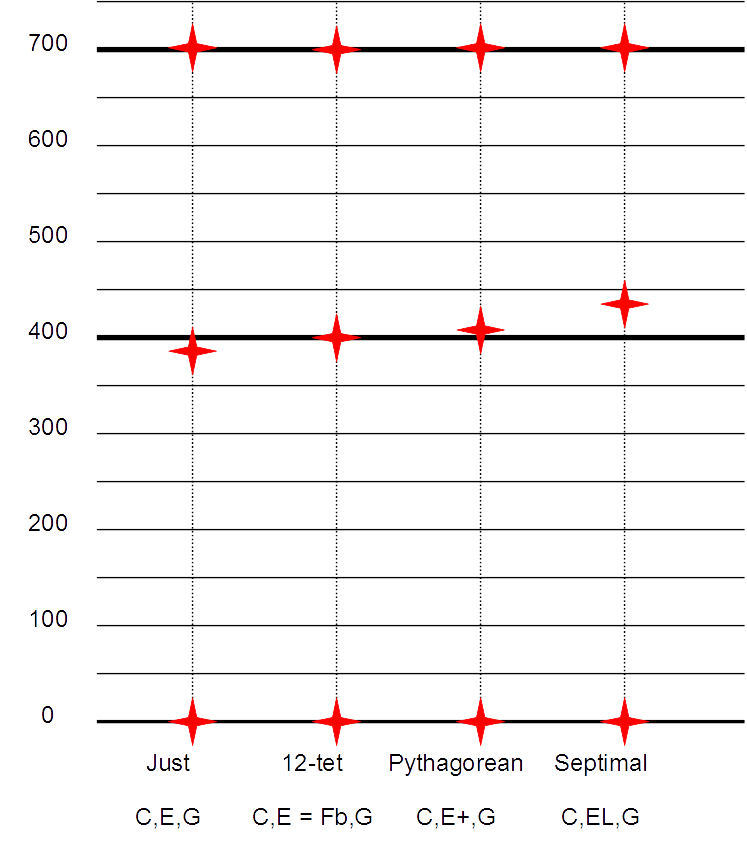 Comparison of major triad tunings.